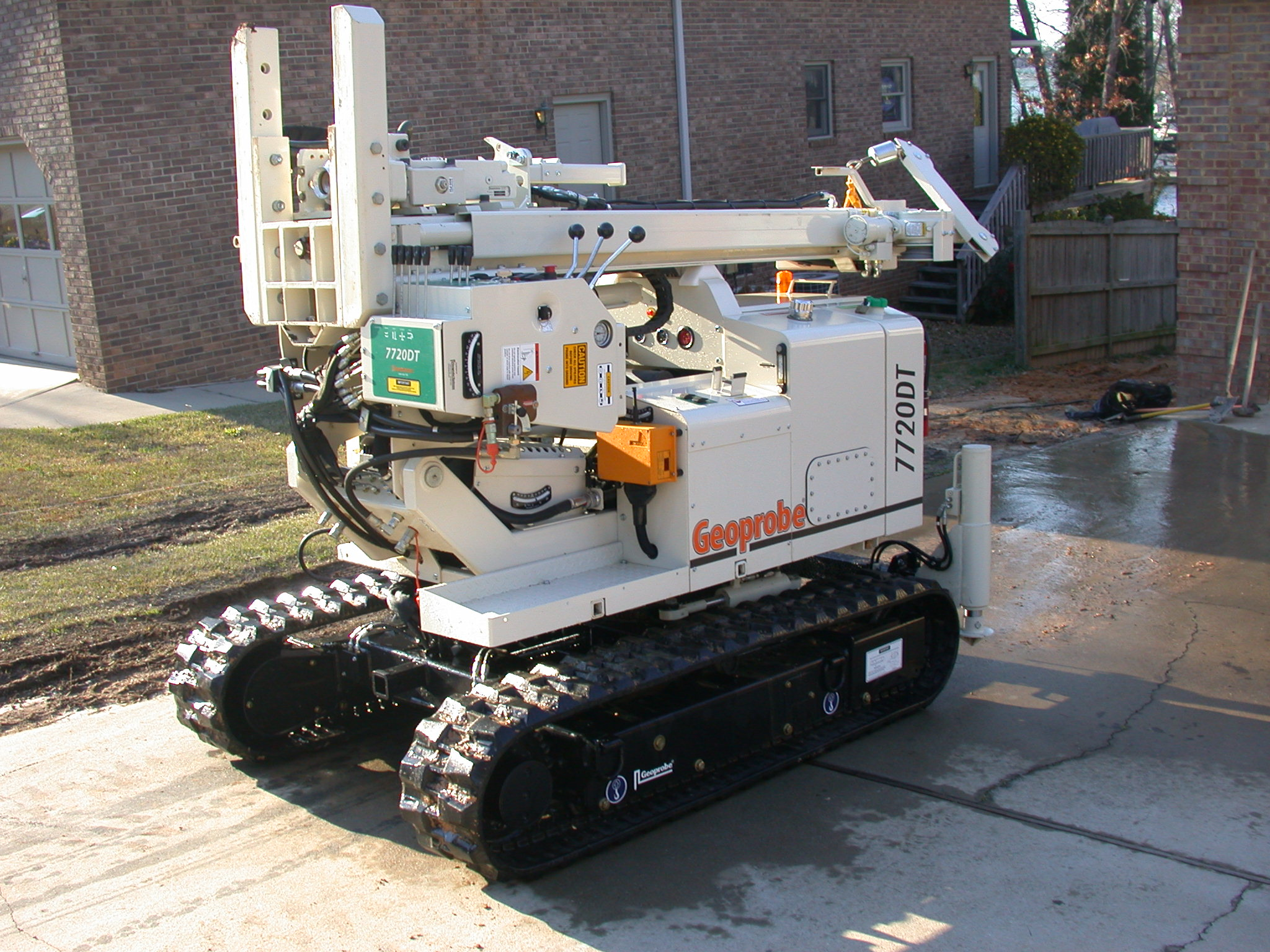 Terry Teate is photographer and owner of the drill.